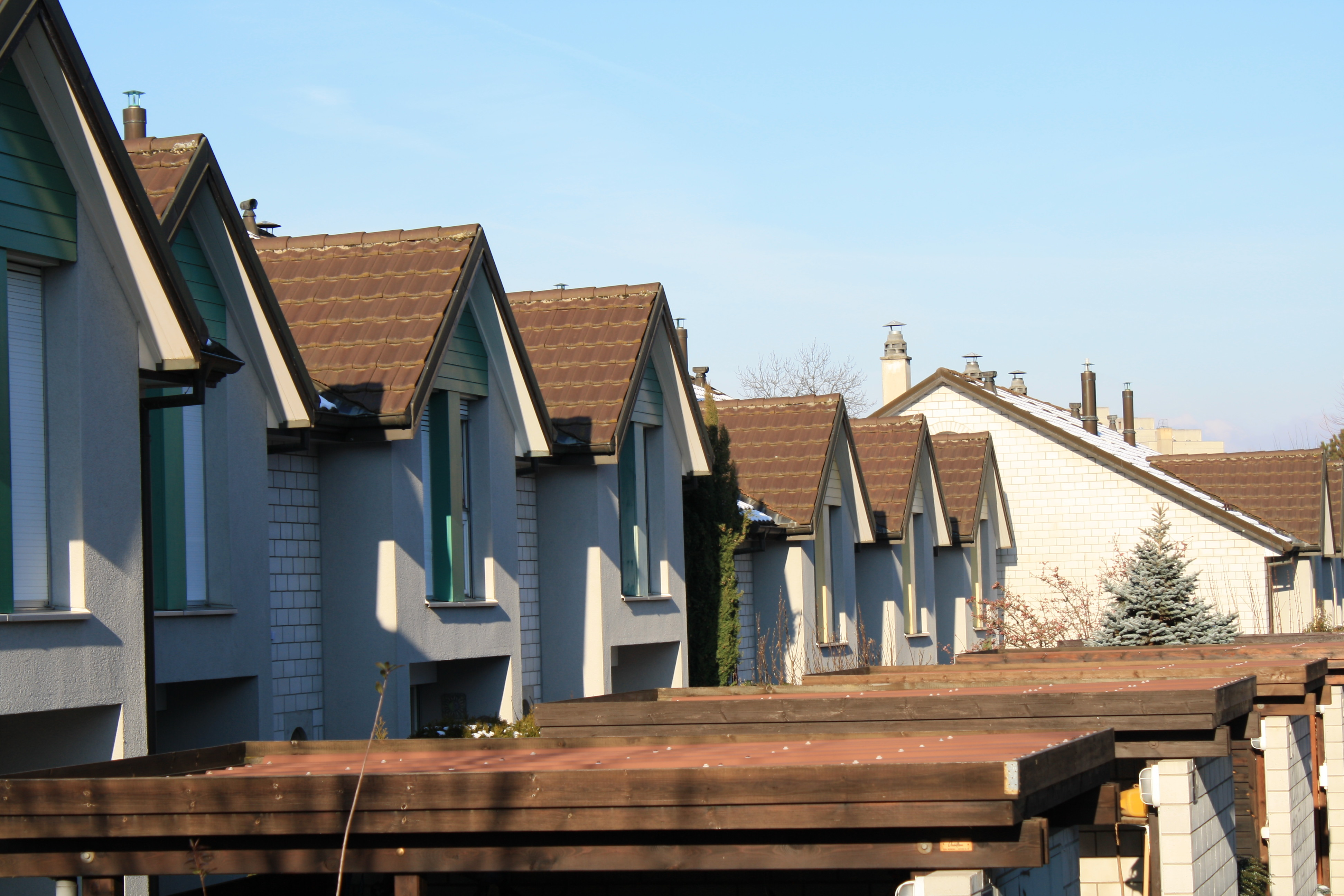 Renens, Vaud, Switzerland